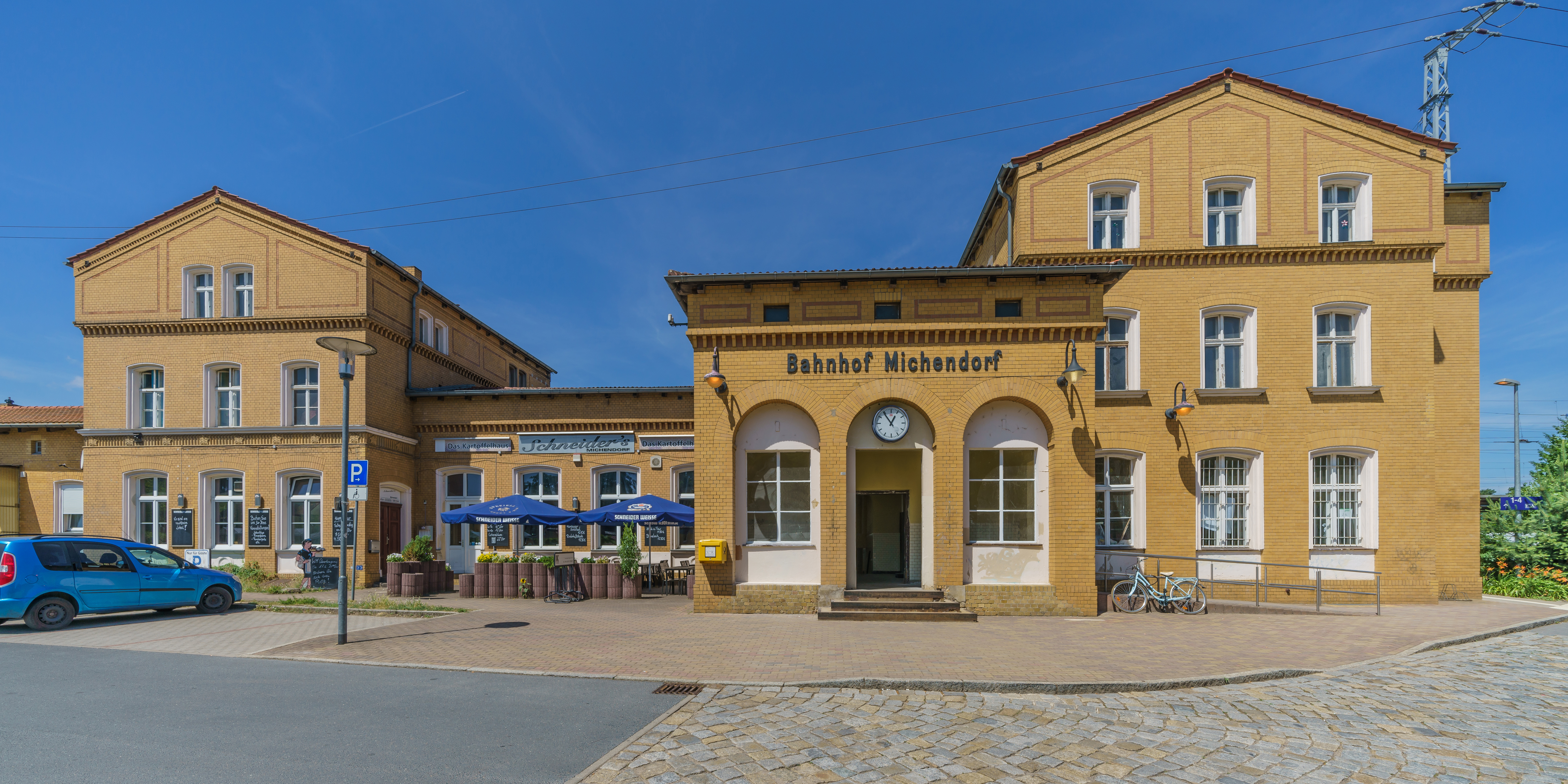 Railway station in Michendorf near Potsdam, Germany